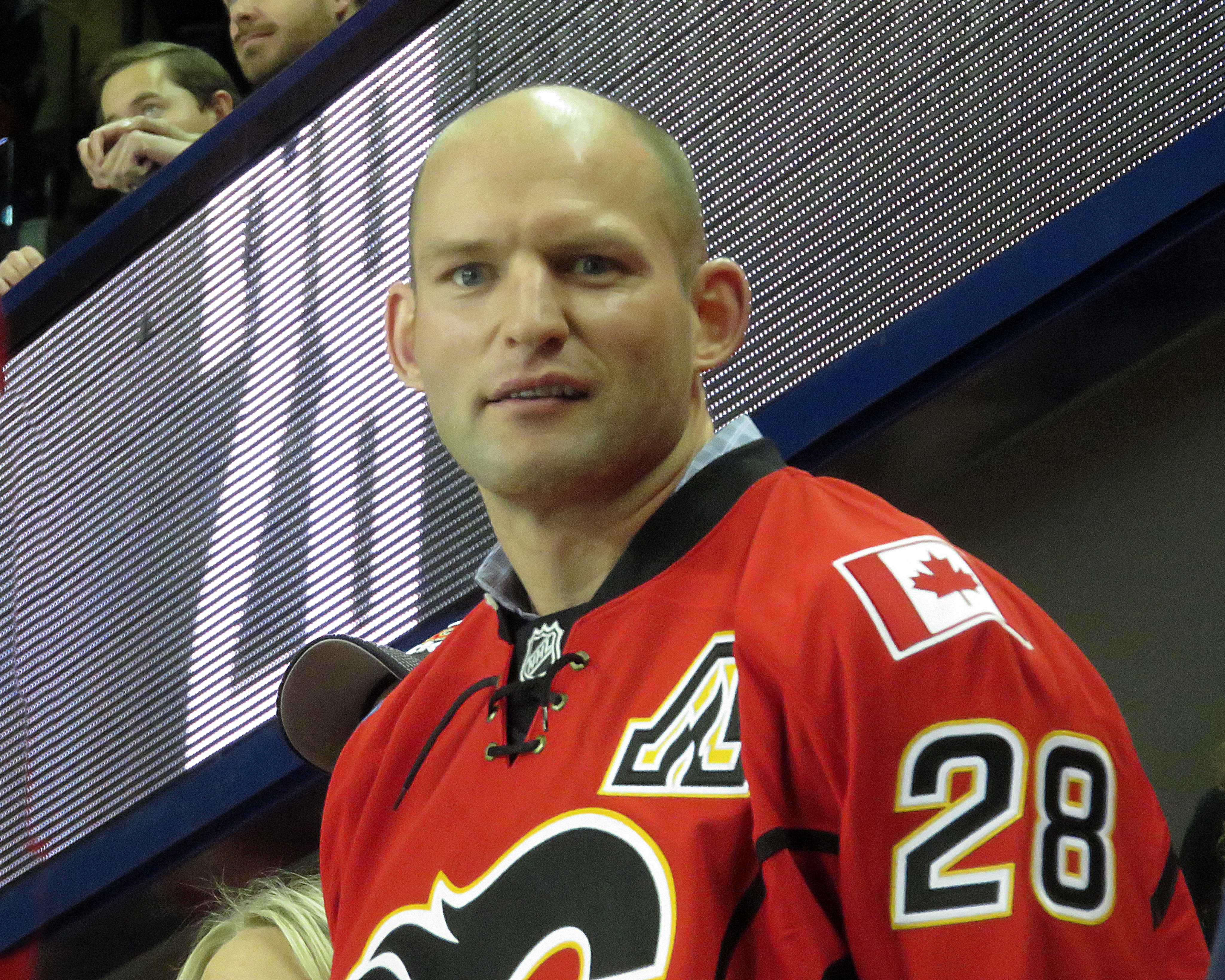 Robyn Regehr retiring with the Flames